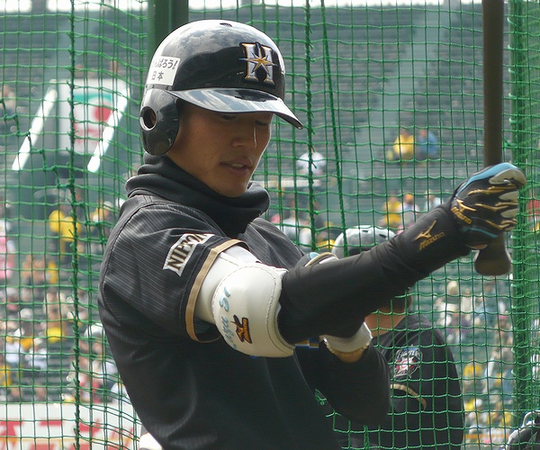 NF-Kazuya-Murata20120310